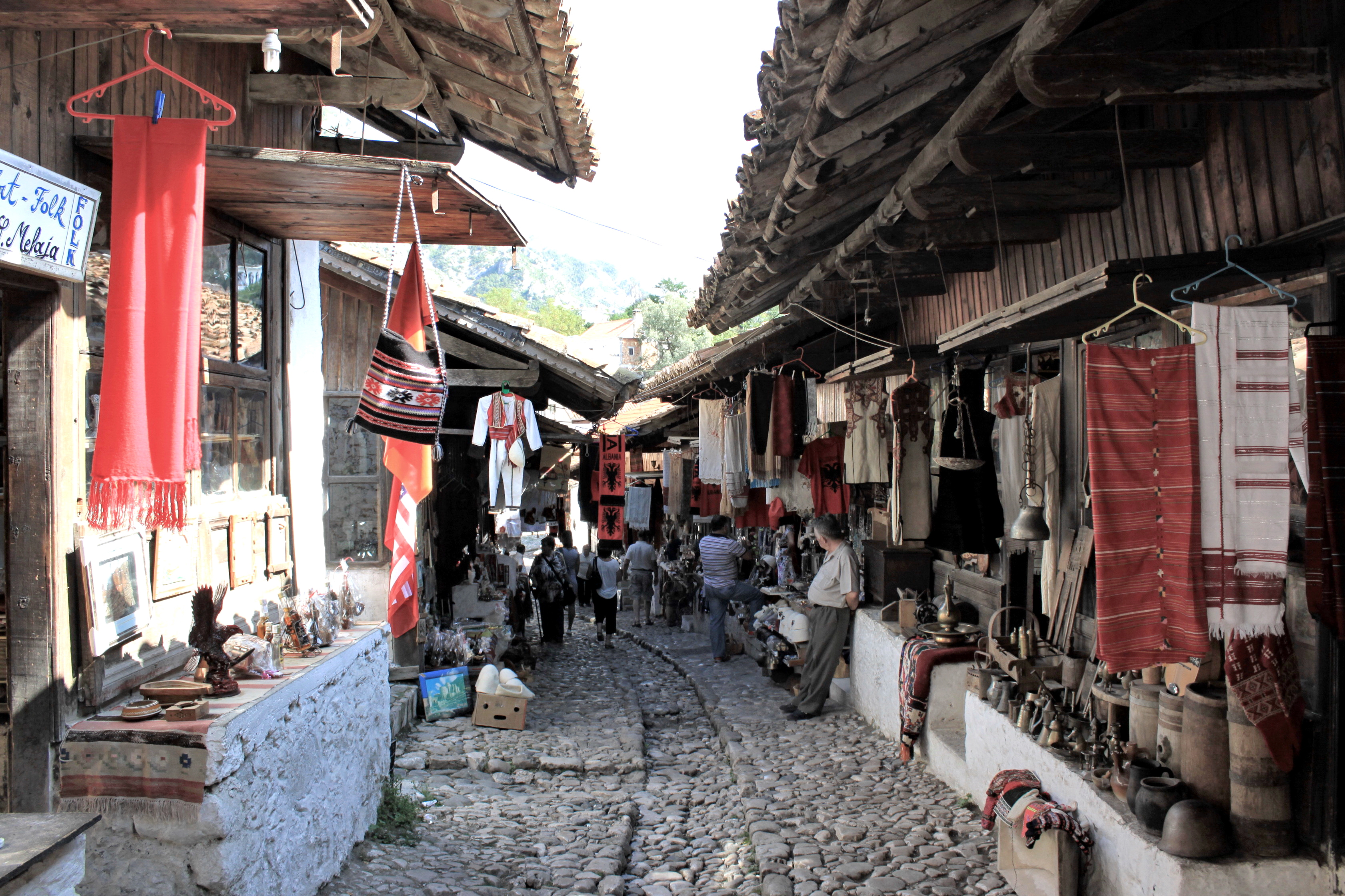 Bazaar in Krujë, AlbaniaShqip: Pazari në Kruja, Shqipëria